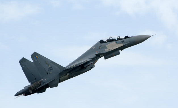 Runa Simi: Fighter Jet Demonstration In Langkawi International Maritime Air Show.